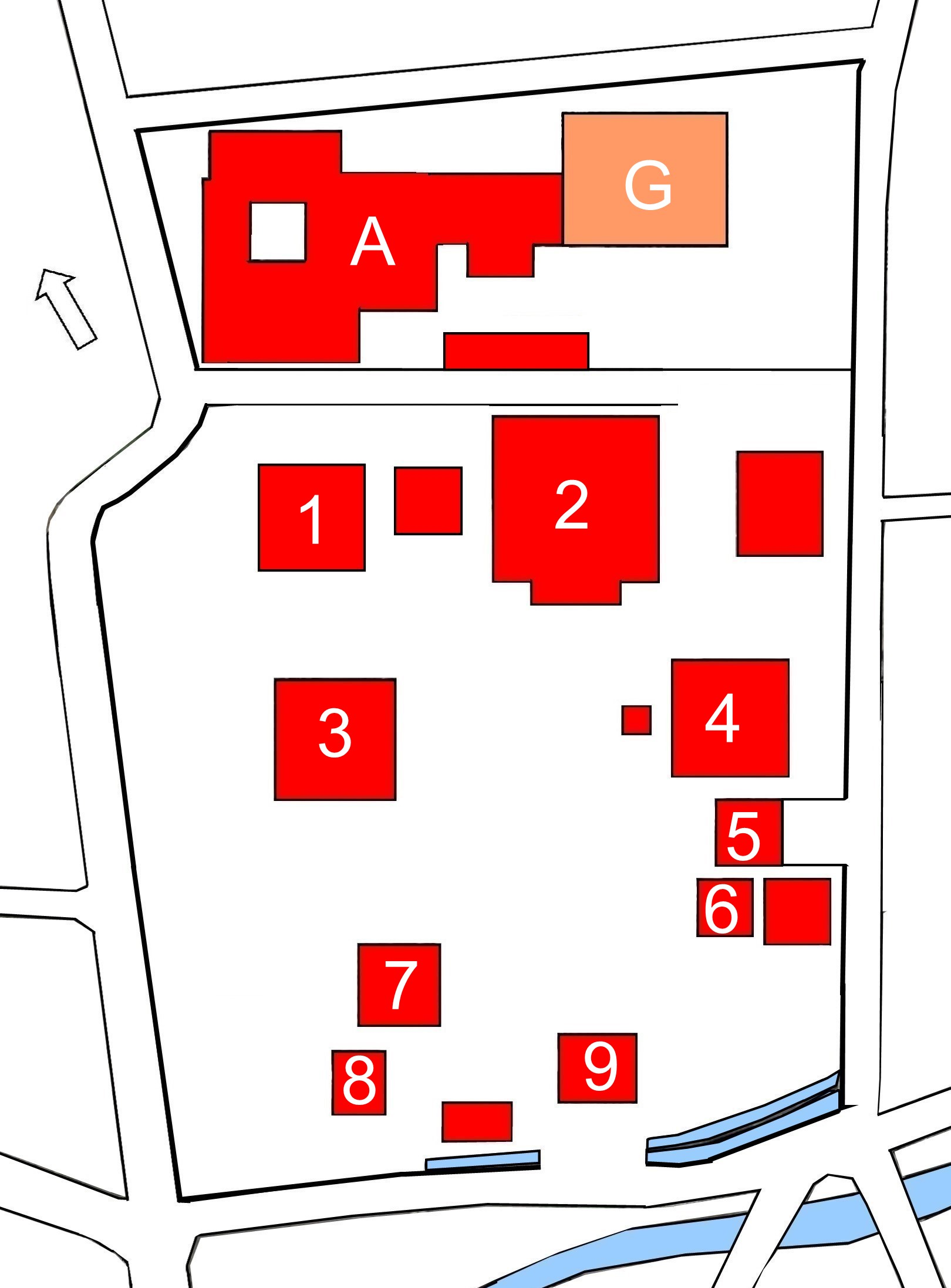 Layout of Motoyama-ji temple at Mitoyo, Japan